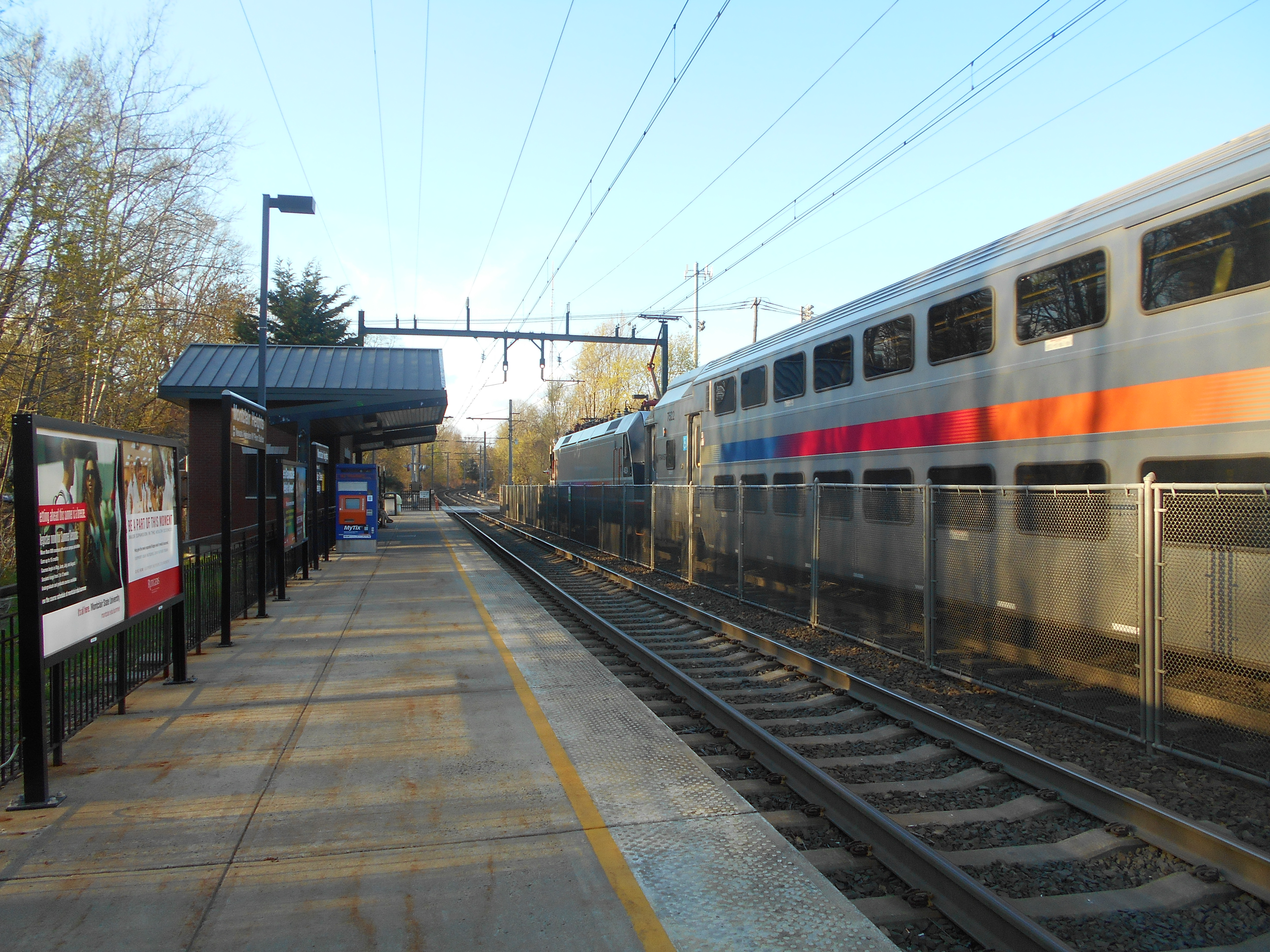 Montclair Heights station with a train departing.